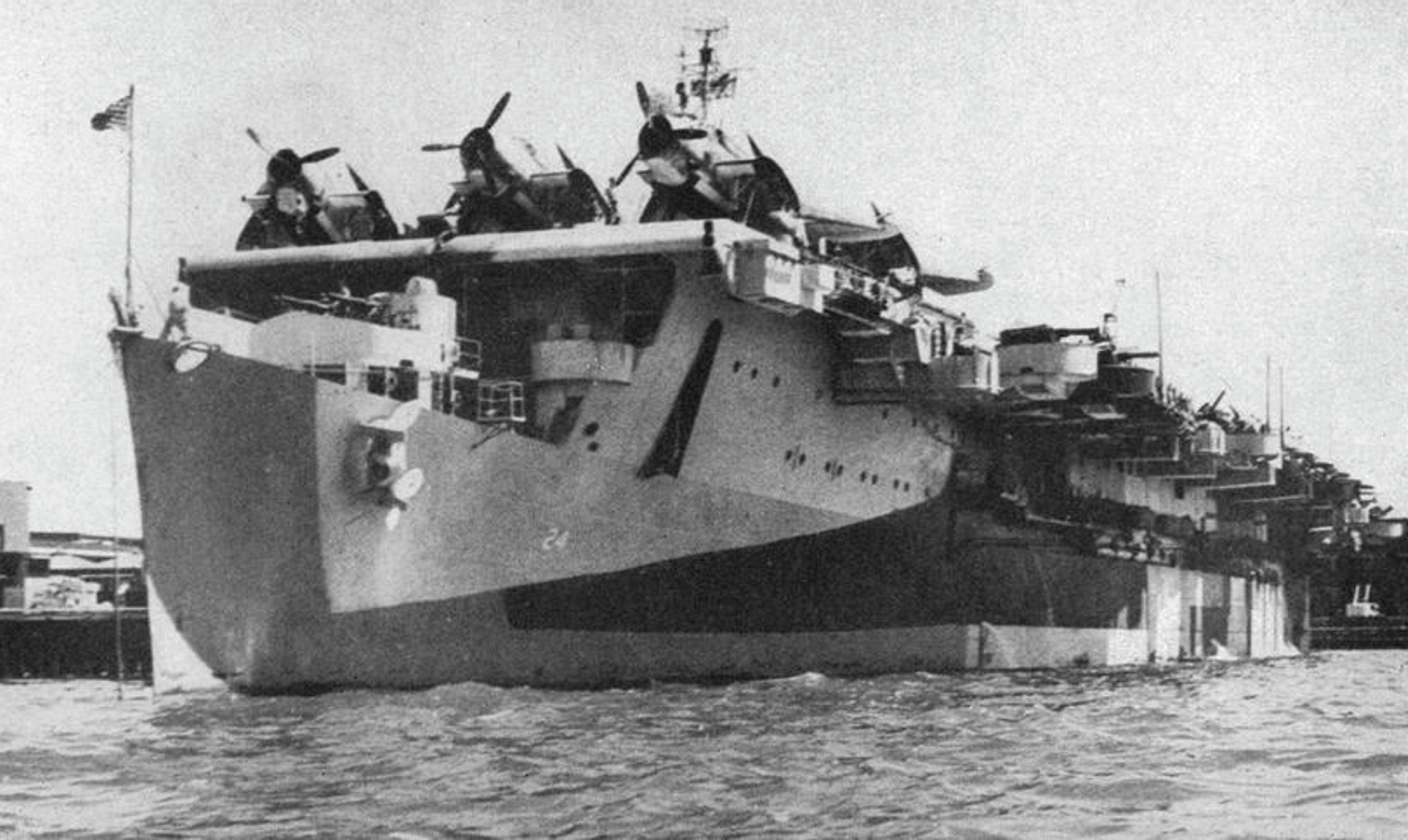 The U.S. Navy light aircraft carrier USS Belleau Wood (CVL-24) at Pearl Harbor, Hawaii (USA), in July 1944. She has just been painted in Camouflage Measure 33, Design 3D. On deck are aircraft of Carrier Air Group 21 (CVG-21).